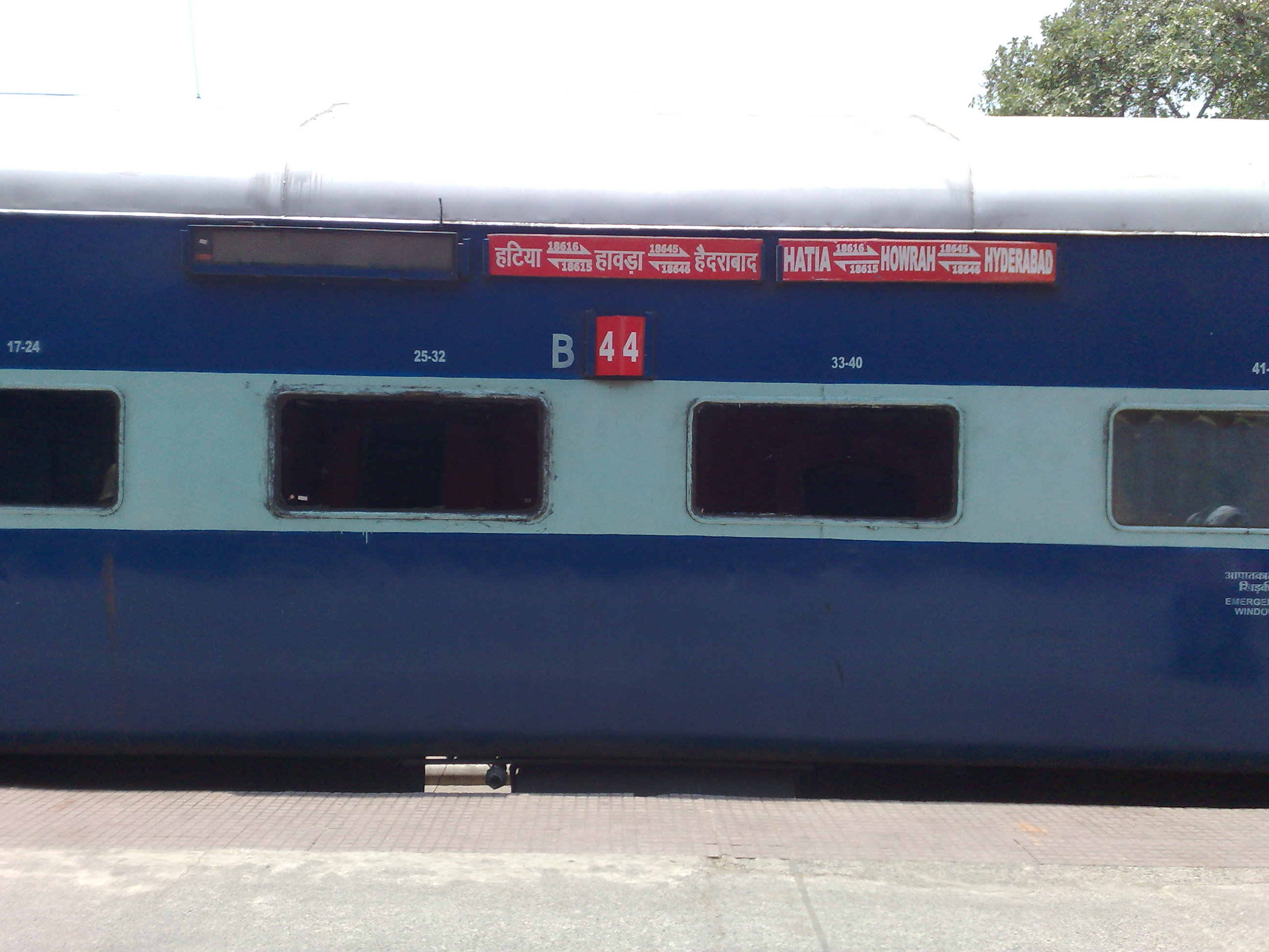 Howrah Hatia Express - AC 3 tier